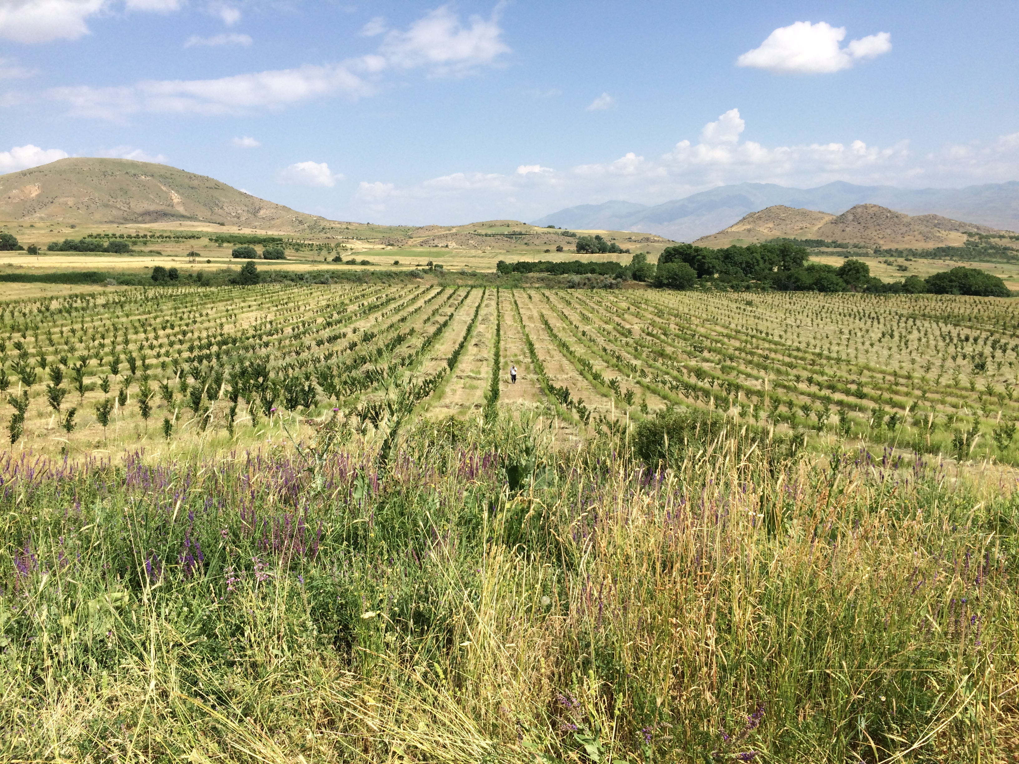 Cherry, peach, plum, and wallnut orchards near the village of Azatek.